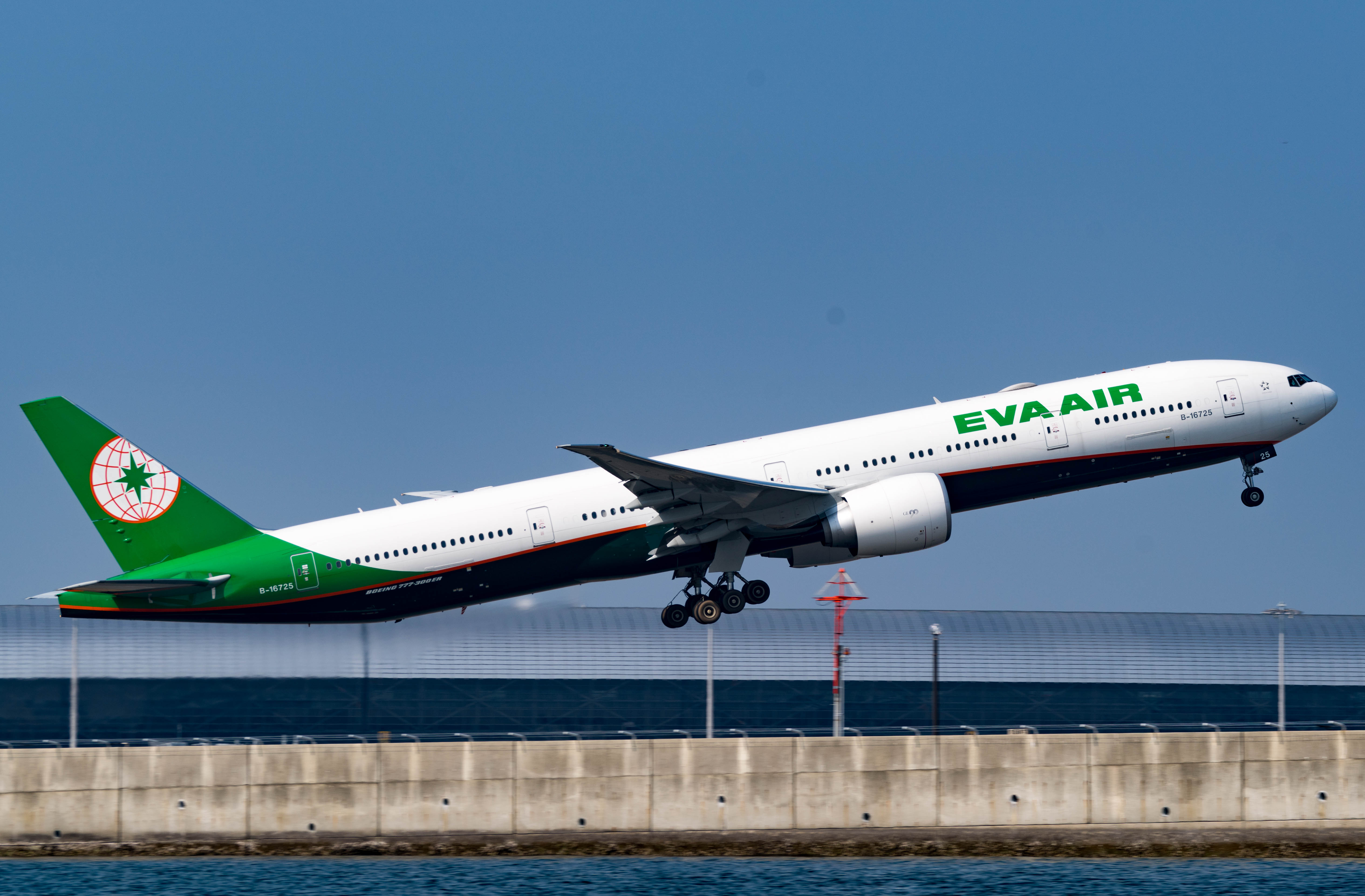 EVA Air Boeing 777 at Kansai International Airport